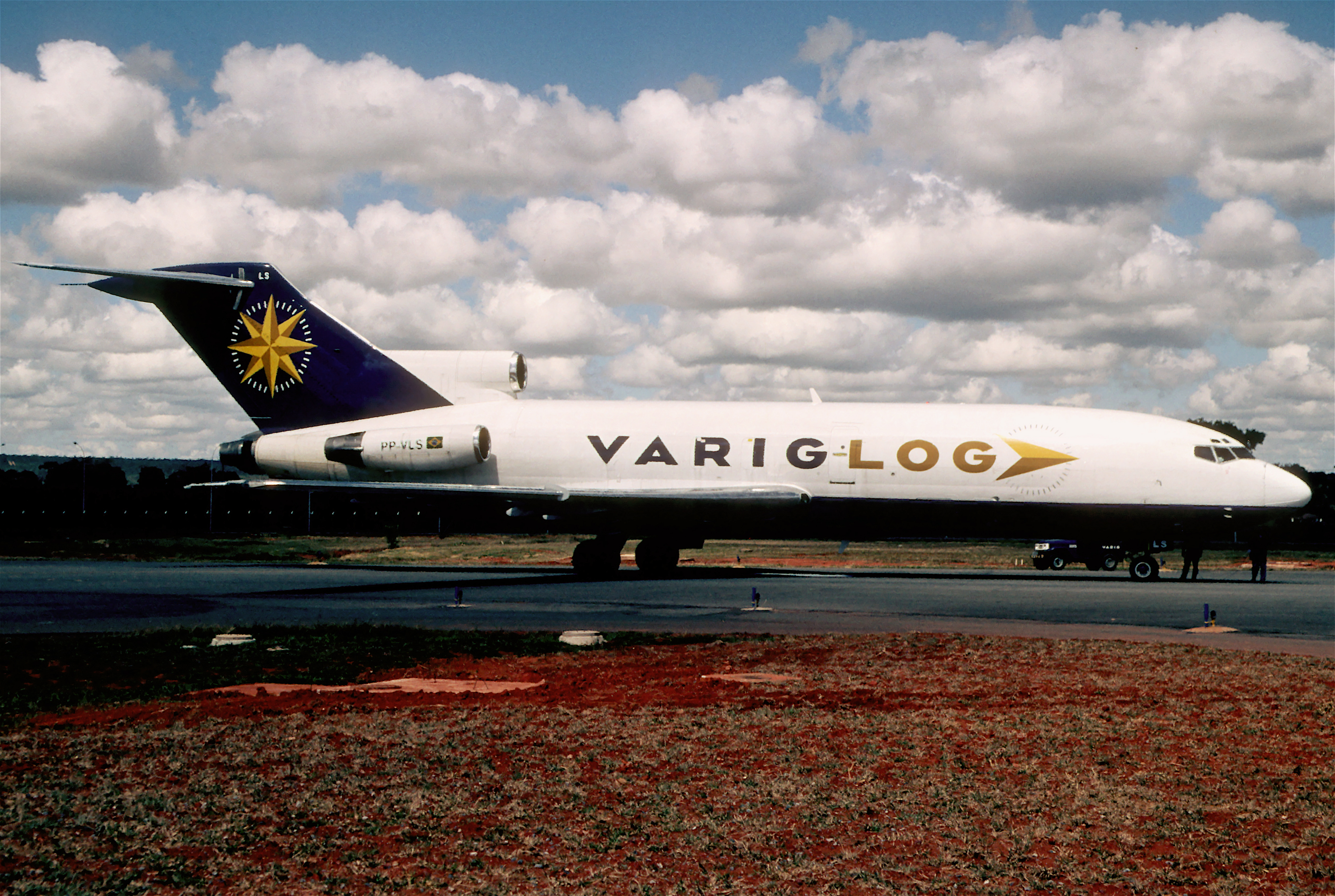 VARIG Log Boeing 727-173C; PP-VLS, July 03